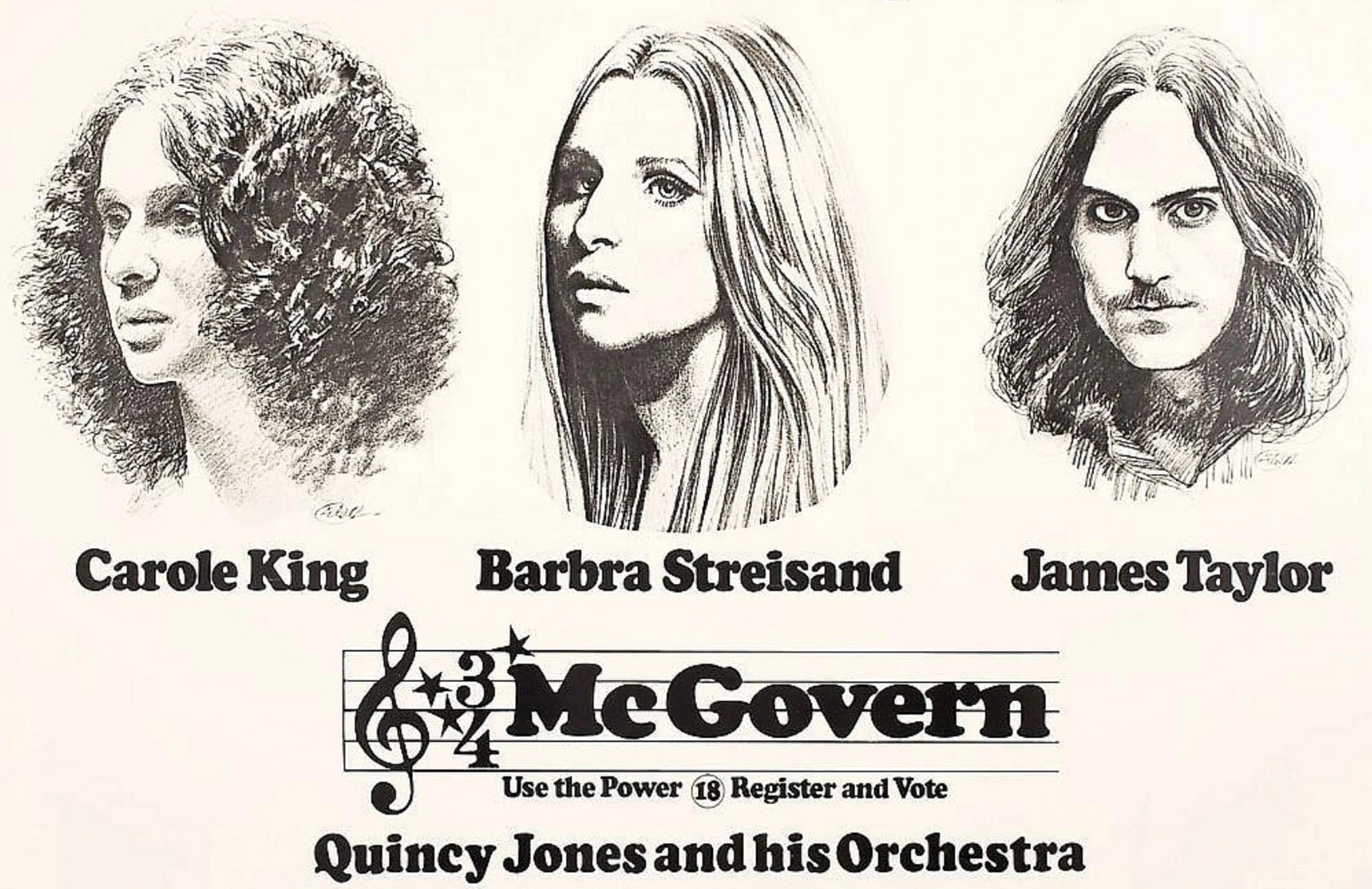 Four for McGovern poster cropped. Pictured is Carole King, Barbra Streisand and James Taylor. The poster is an advertisement for a benefit concert organized by Warren Beatty to assist in the 1972 presidential campaign of George McGovern.